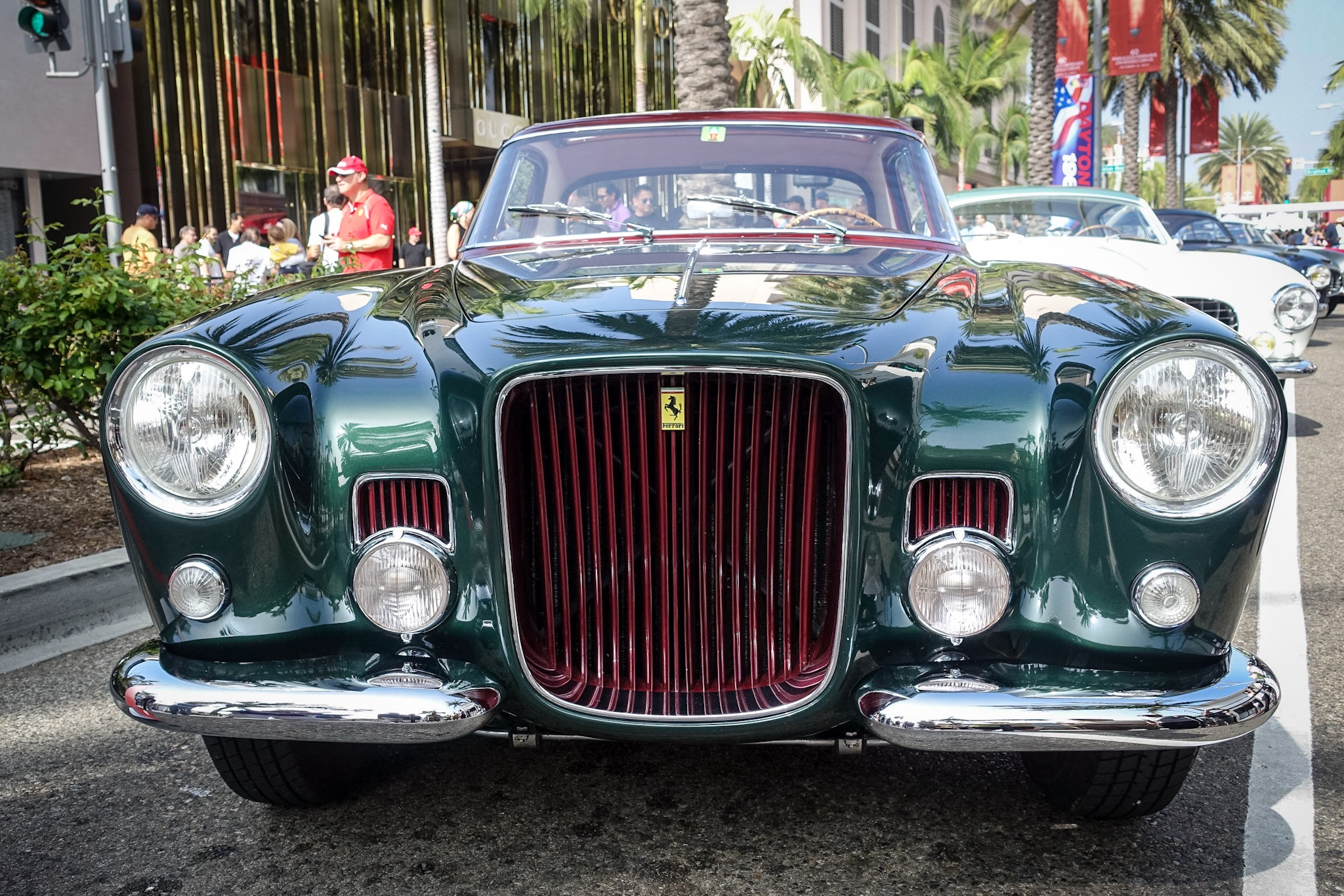 This is one of Pinin Farina's most unusual designs for a Ferrari, built for Gianni Agnelli (Fiat Chairman). Only 12 375 Americas were built, and this was the last. Pinin Farina completed it in November 1954 and displayed it at the Turin Auto Show. Its most notable feature was a vertical, rectangular grille. It was painted a shade of dark green, with dark red trim around the windows, and fitted with a sunroof. The current owner had it carefully restored to its original appearance. It has earned Best in Show or Best in Class in 15 major Concours in the U.S. and Europe.